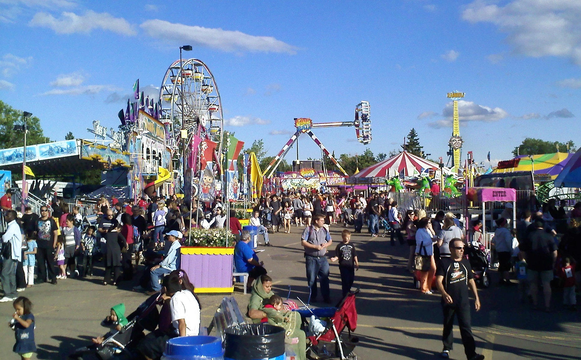 The midway at Edmonton's Capital Ex.